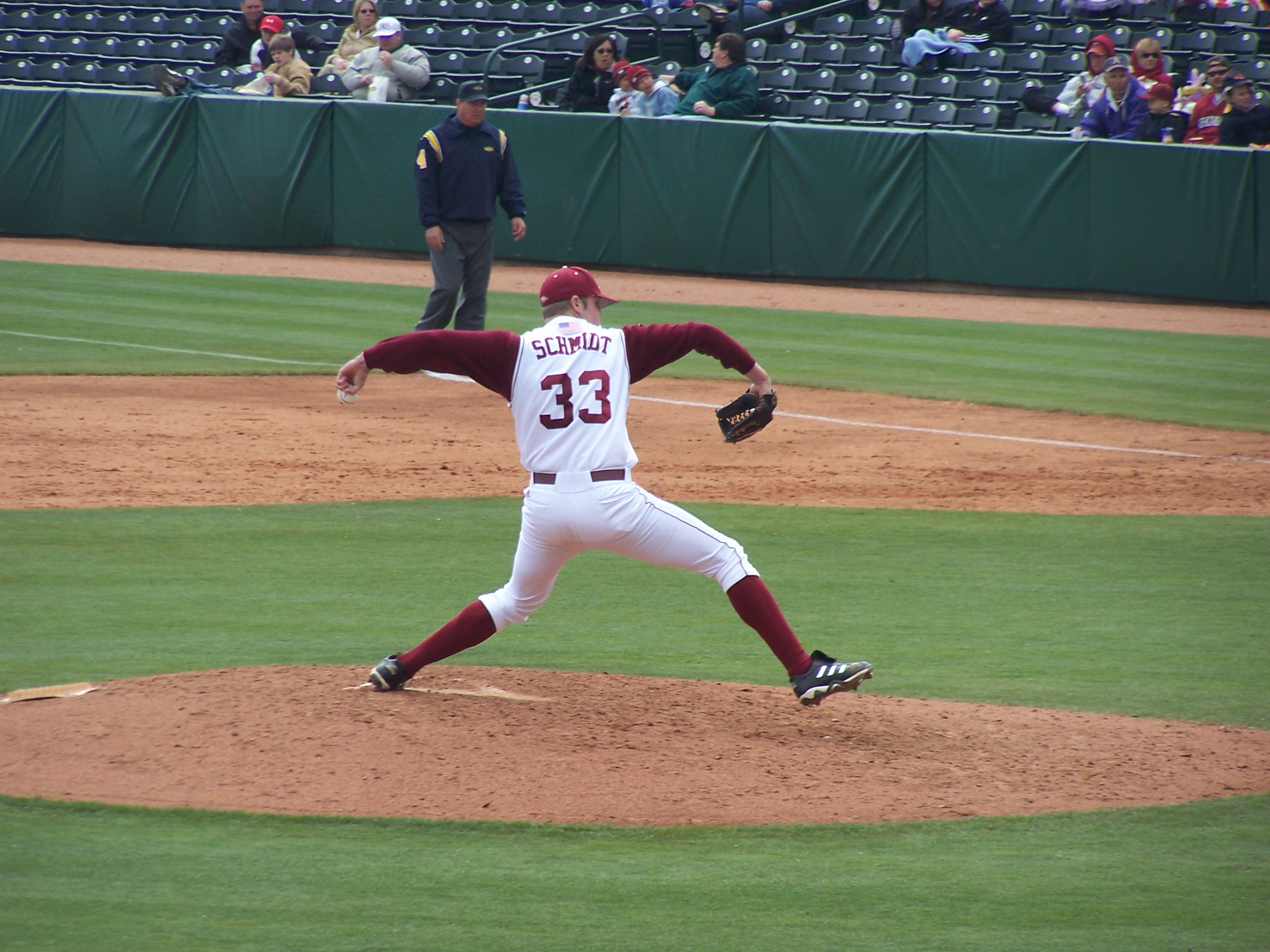 This is Nick Schmidt pitching for the University of Arkansas.